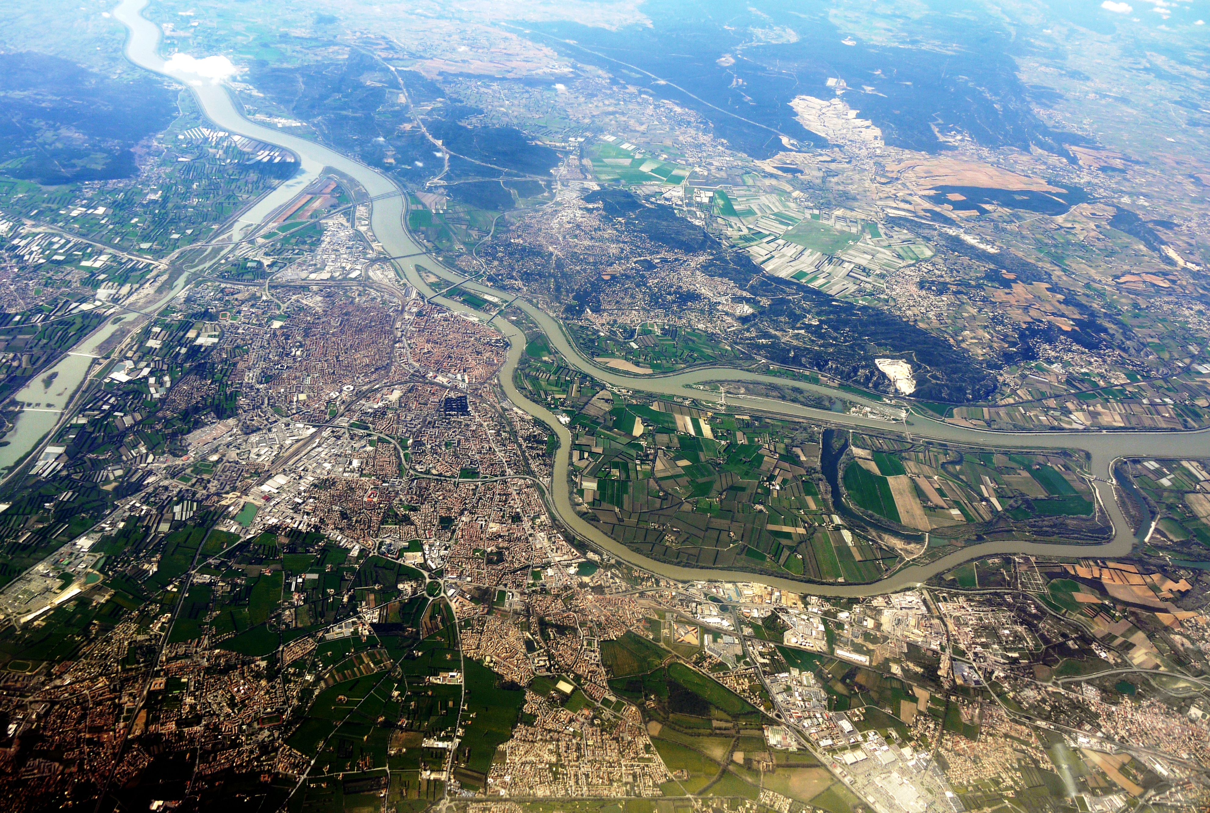 Avignon, photograph taken from the sky, on the fly line between Marseille and Stockholm.